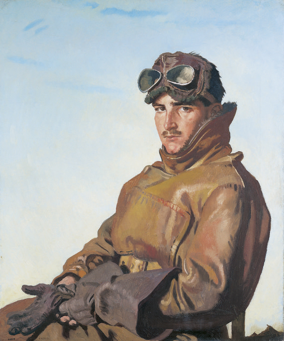 An Airman: Lieut R T C Hoidge, MC oil on canvas 91,4 x 76,2 cm 1917 signed b.l.